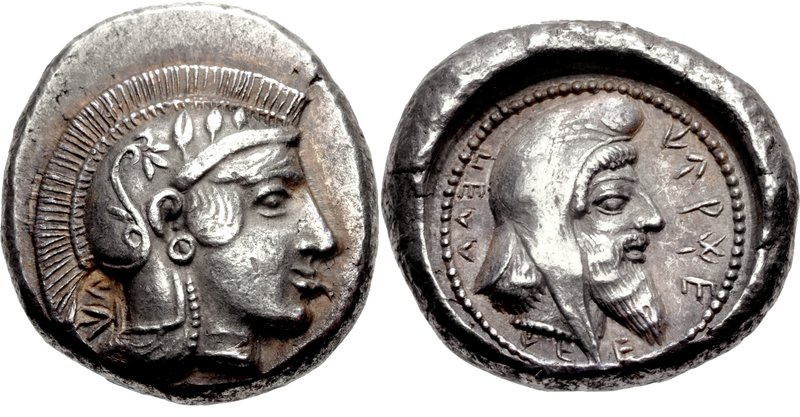 DYNASTS of LYCIA. Kherei. Circa 440-30-410 BC.